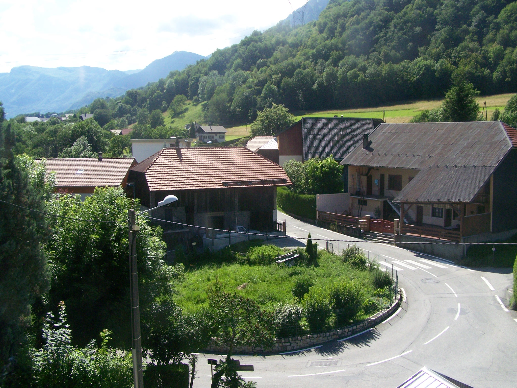 The little commune of Pallud in Savoie, France, seen from its church.